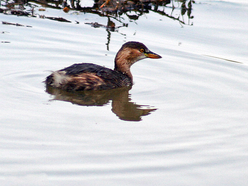 Little Grebe (Tachybaptus ruficollis) at Bharatpur, Rajasthan, India.